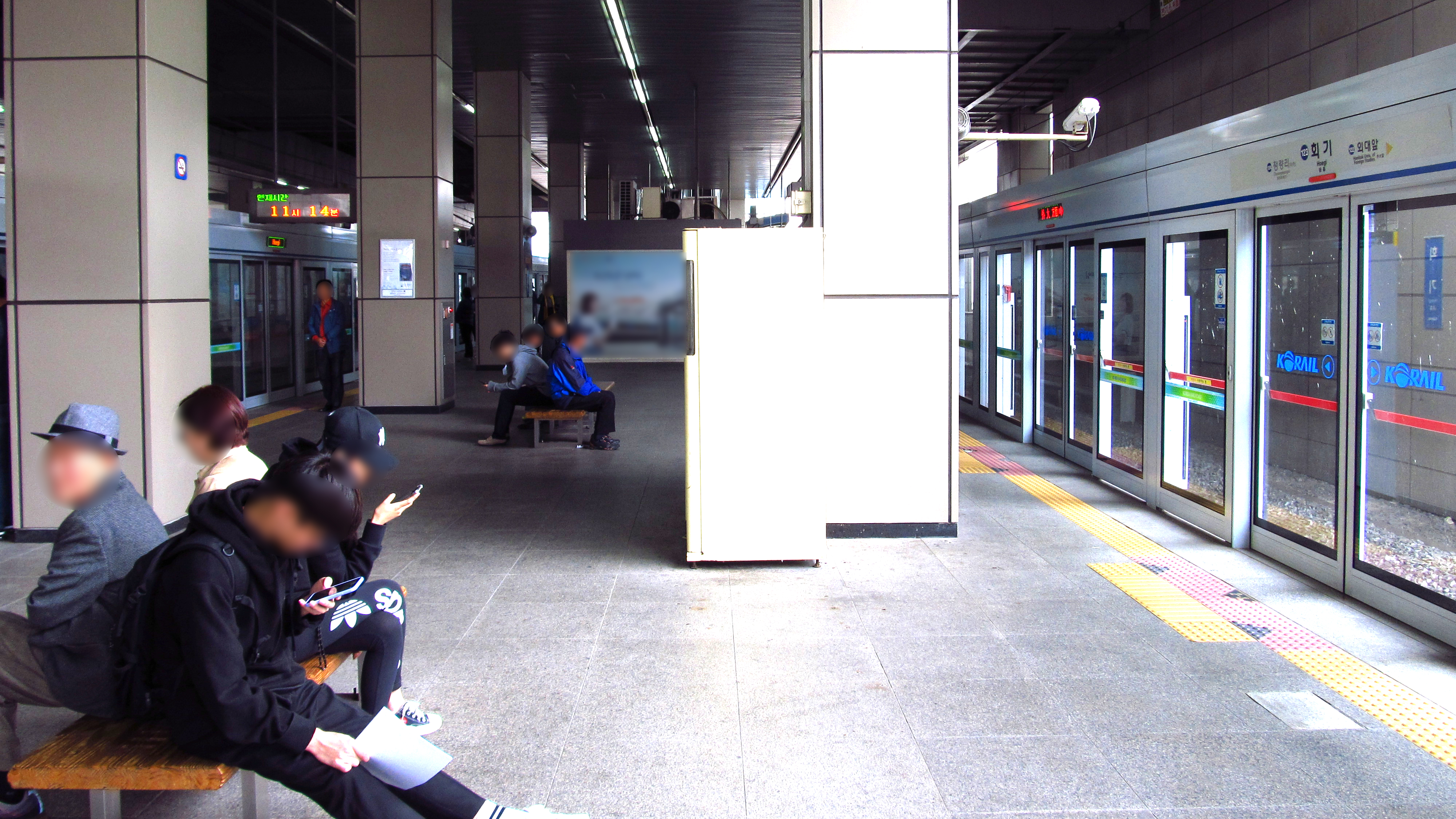 The platform at Hoegi Station on Seoul Subway Line 1 in Dongdaemun-gu, Seoul, Republic of Korea(South Korea)